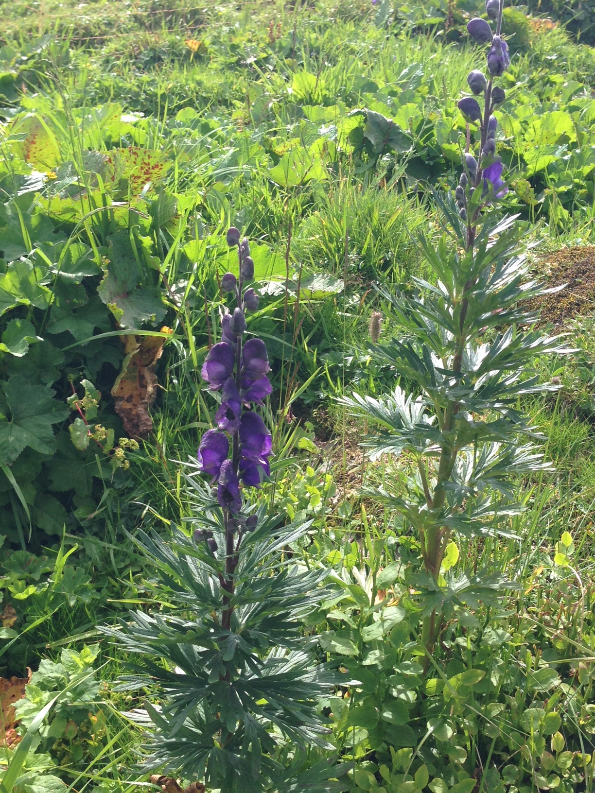 Aconitum napellus in the nature with its caracteristic leafs and flowers (Jupiter's helmets).